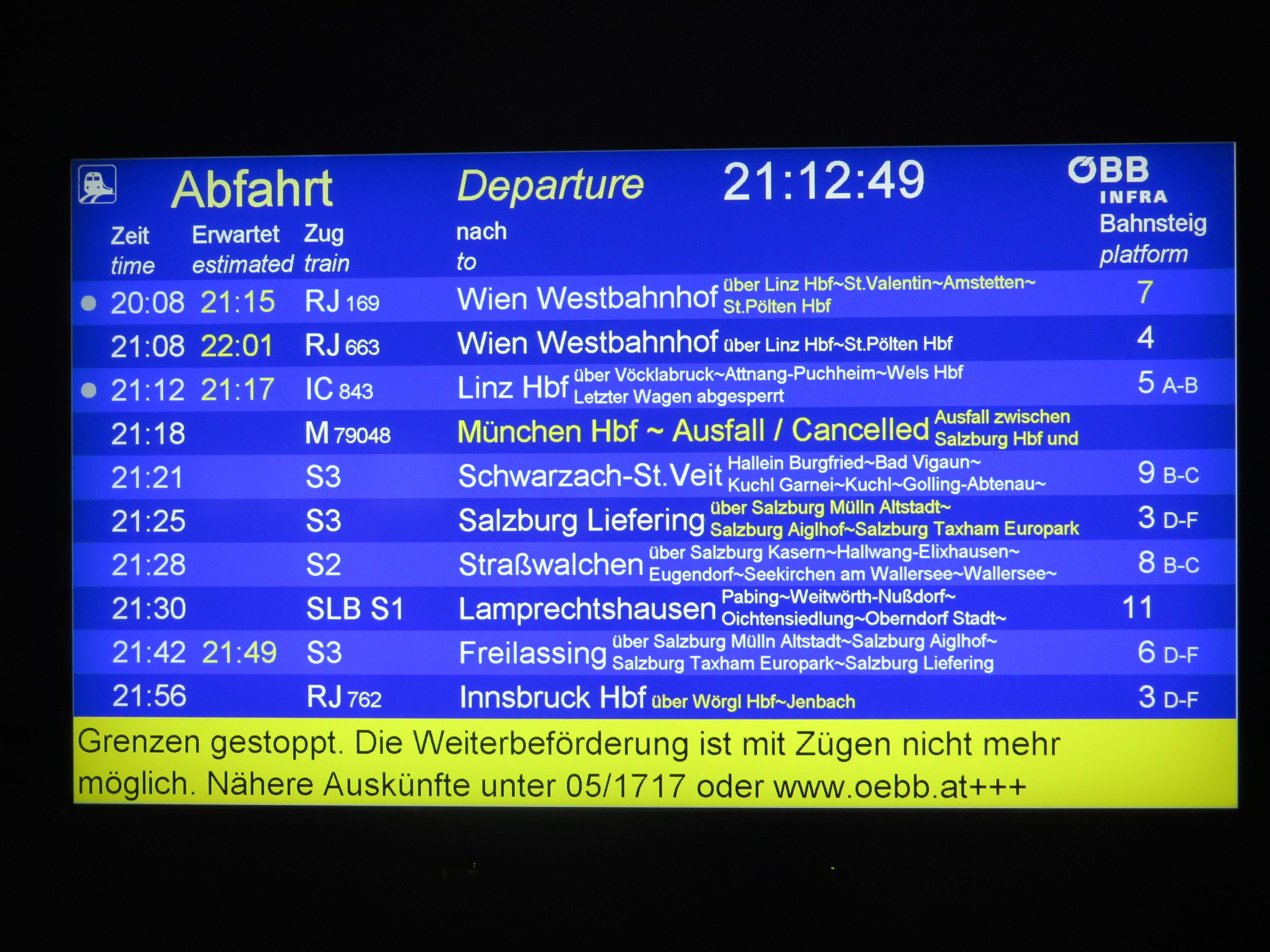 Situation at Salzburg Mainstation after German border closing for refugees